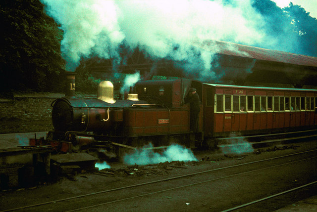 Douglas station, Isle of Man Railway The 10.25 departure to Ramsey, headed by locomotive No 13, Kissack.